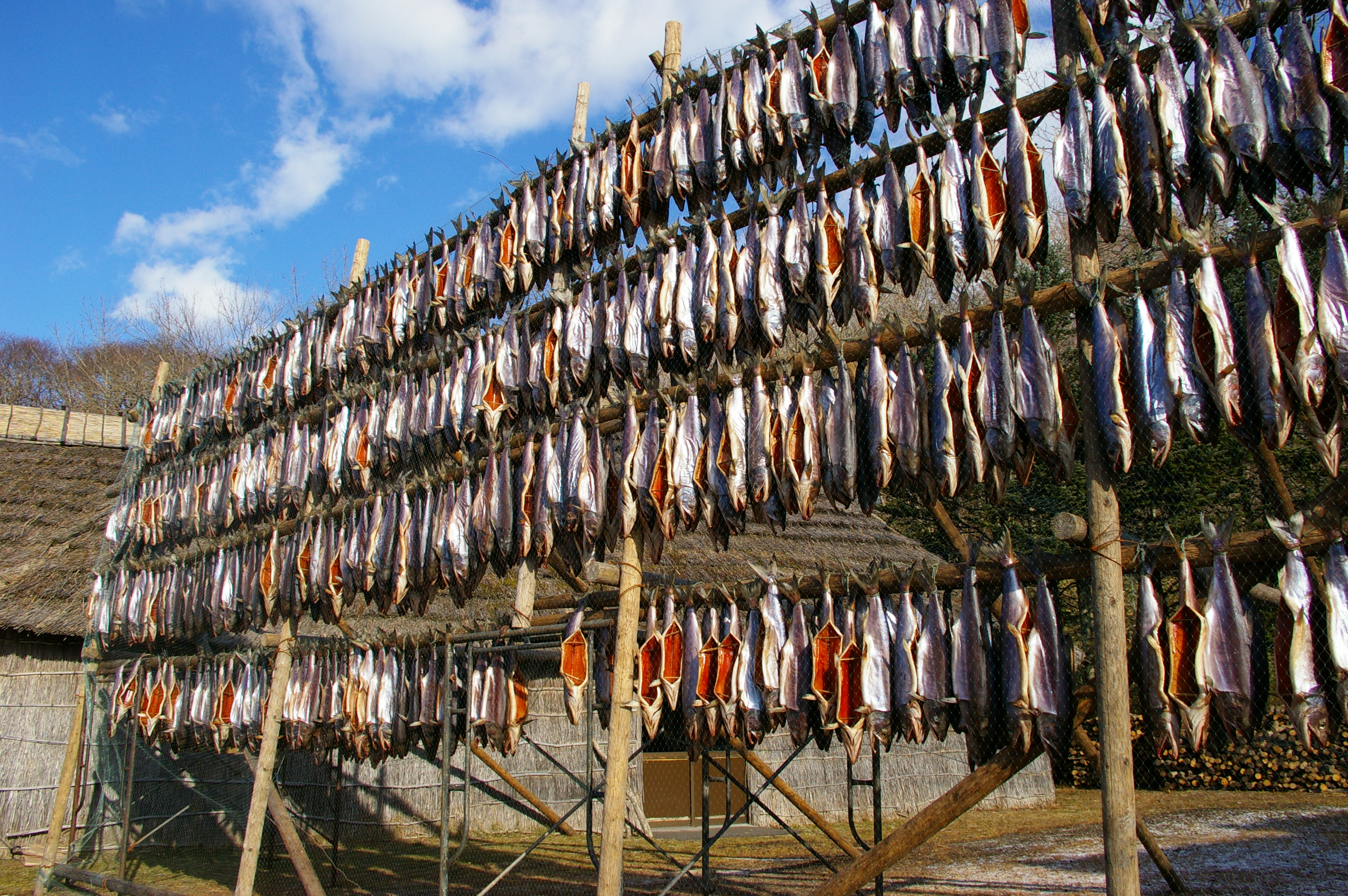 Satchep (dried salmon) at The Ainu Museum in Shiraoi, Hokkaido, Japan